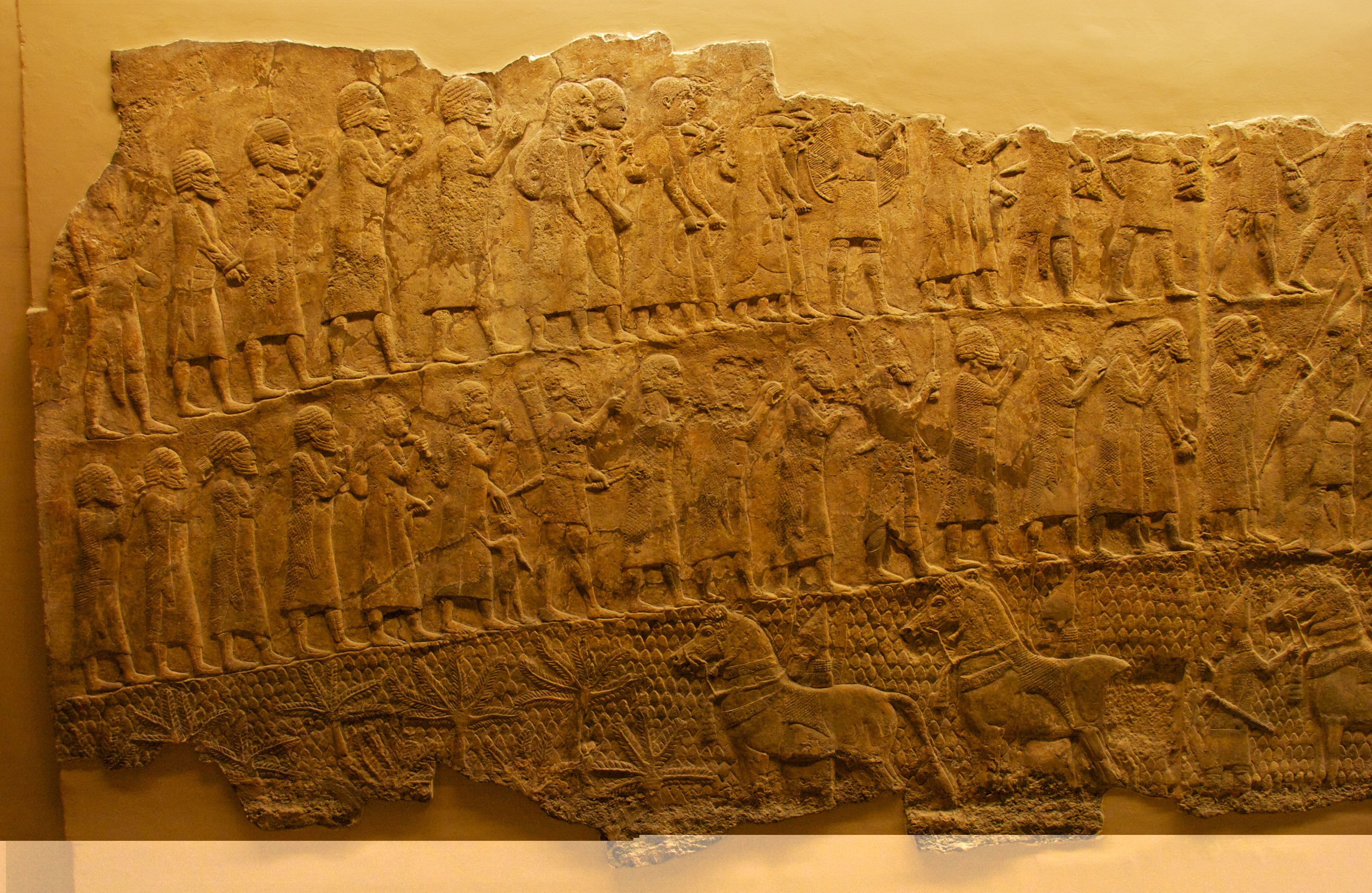 Assyria: Siege of Lachish. Review of prisoners. Assyrian, about 700-692 BC. From Nineveh, South-West Palace, Room XXXII, panels 7-8. The prisoners, who have probably been captured during one of Sennacherib's campaigns in Iran or eastern Turkey, are brought into the presence of the king, who will have been shown on a panel further to the right. W A 124902-3 Lachish Reliefs, Object 21 of 100, British Museum